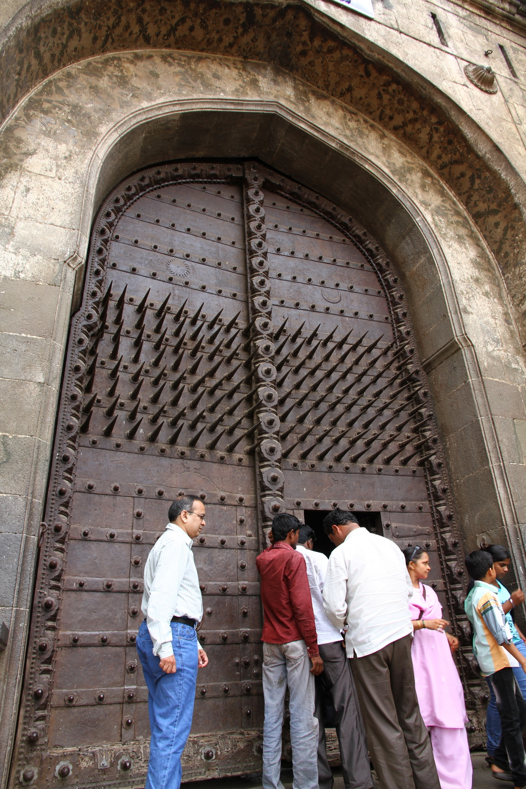 Shaniwar Wada palace's Delhi Gate